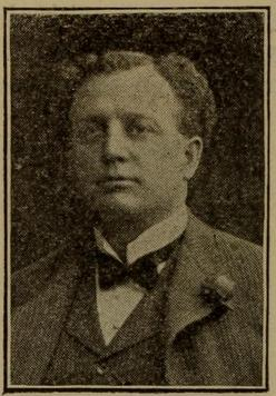 Major League Baseball executive Fred Postal